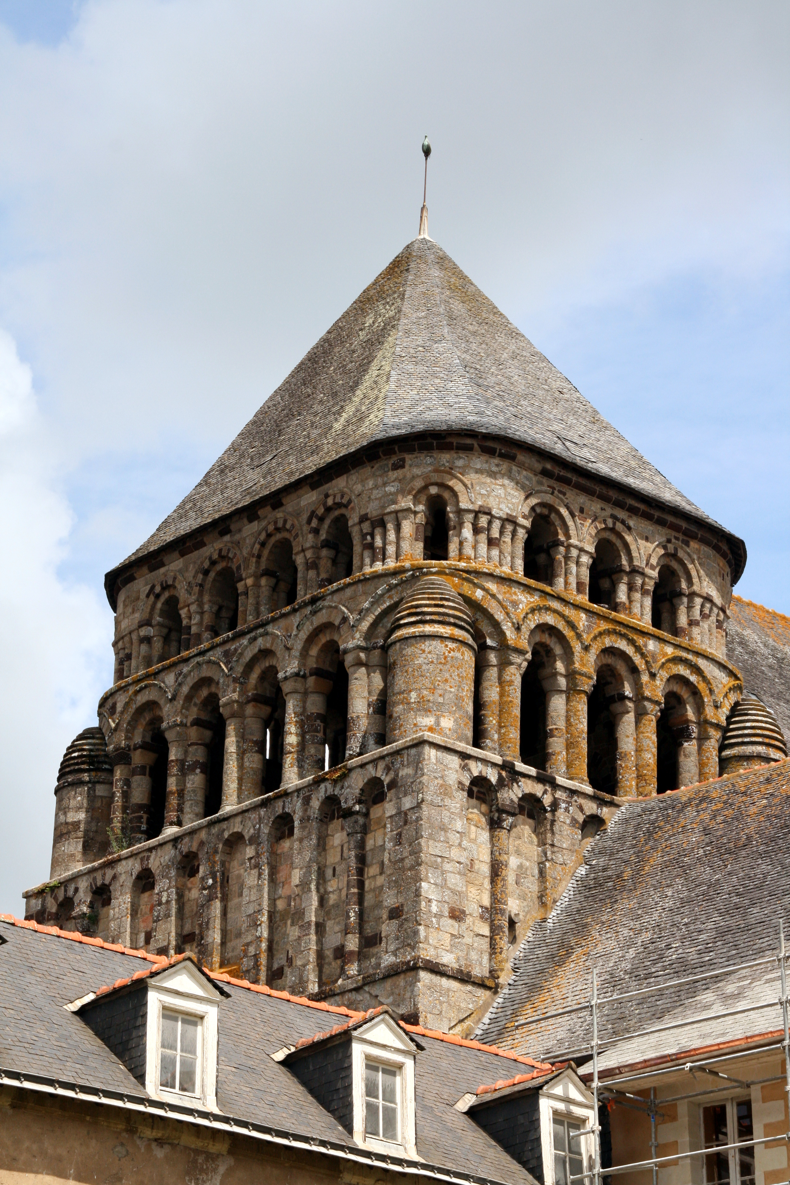 Romanesque church tower of the abbey Saint-Sauveur in Redon, Brittany, France.